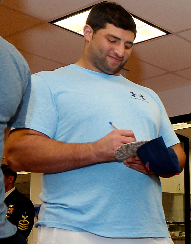 New England Patriots wide receiver Julian F. Edelman, left, defensive lineman Joe Vellano and special teams coach Scott O’Brien share a laugh with a patient at Naval Medical Center San Diego. The Patriots visited the hospital to boost morale for patients and staff members before the team's game against the San Diego Chargers Sunday at Qualcomm Stadium. (U.S. Navy photo by Mass Communication Specialist 3rd Class Pyoung K. Yi/Released)